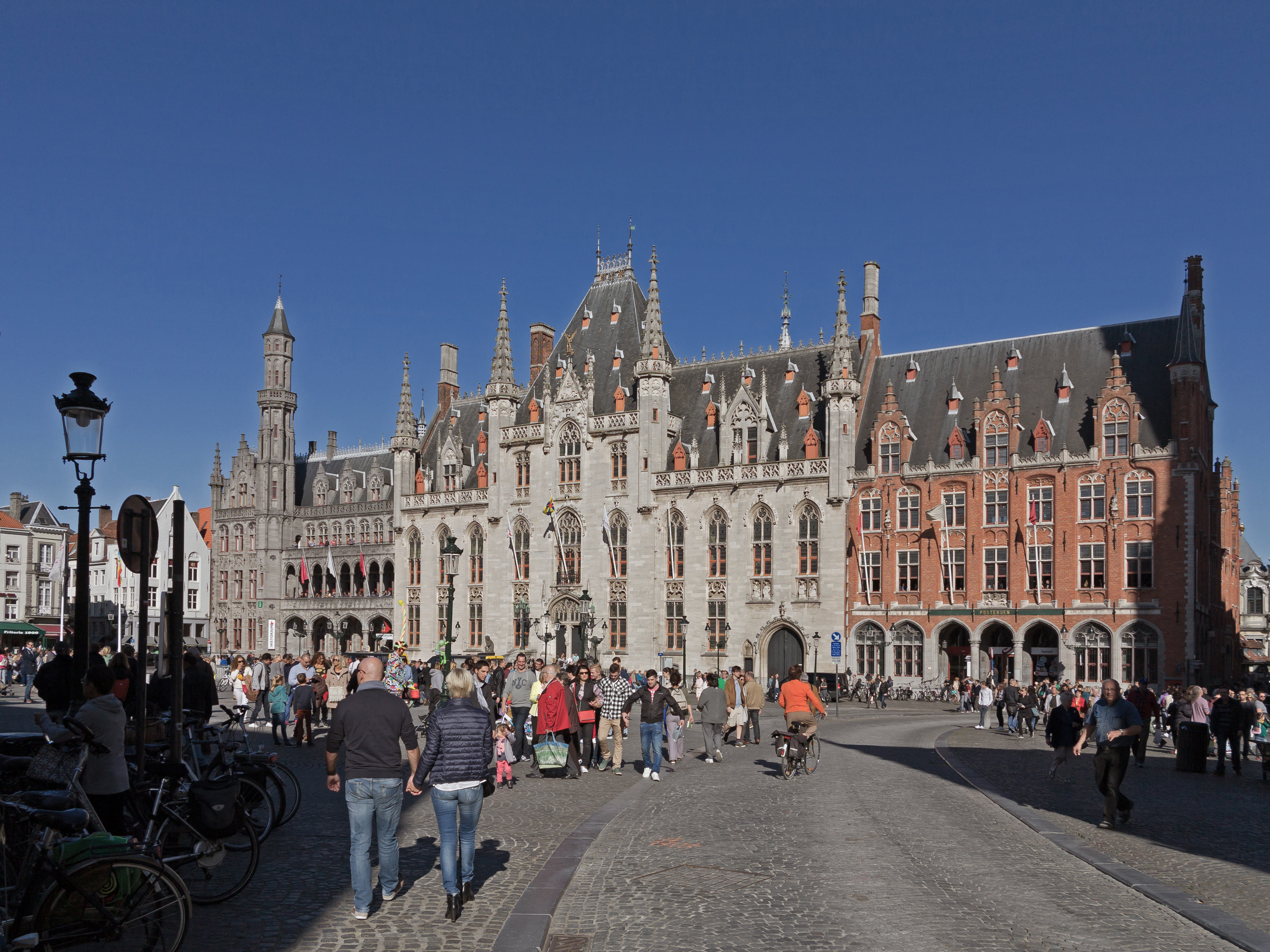 Brugge, monumental building: het Provinciaal Hof